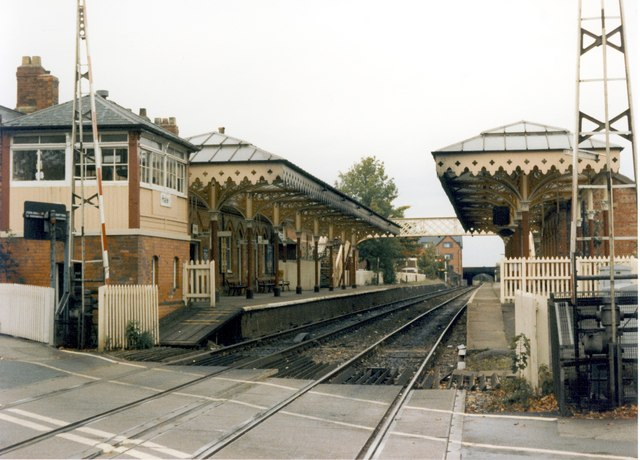 Hale railway station Original description: Hale station